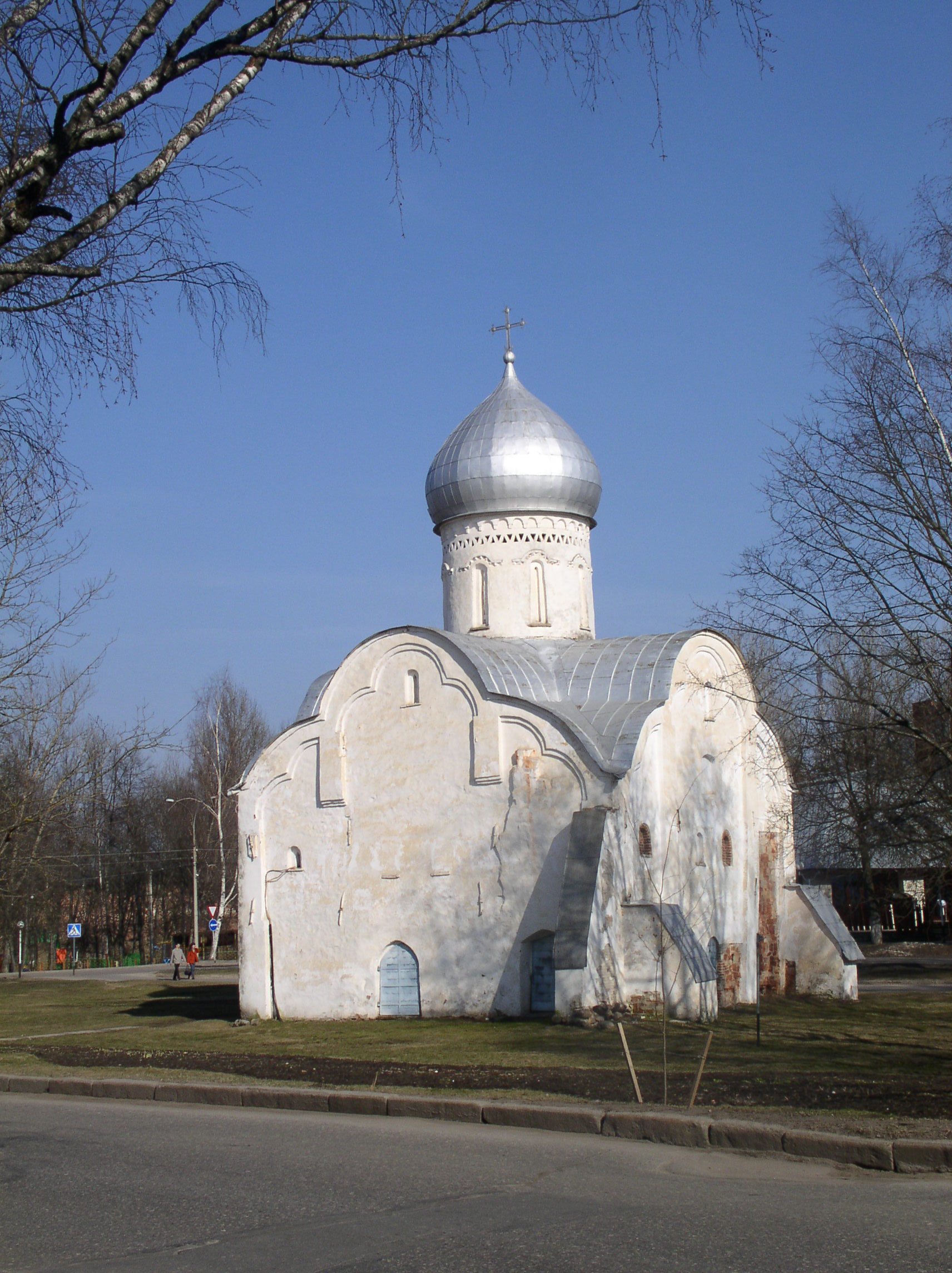 St. Vlasius (St. Blaise) church (1407), Veliky Novgorod, Russia